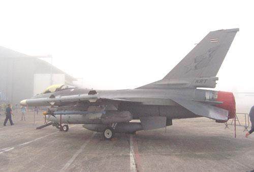 Royal Thai Air Force F-16 ADF in Children's Day 2006 (Jan 14, 06) at Don Mueng AFB.(Photo By Analayo Korsakul )